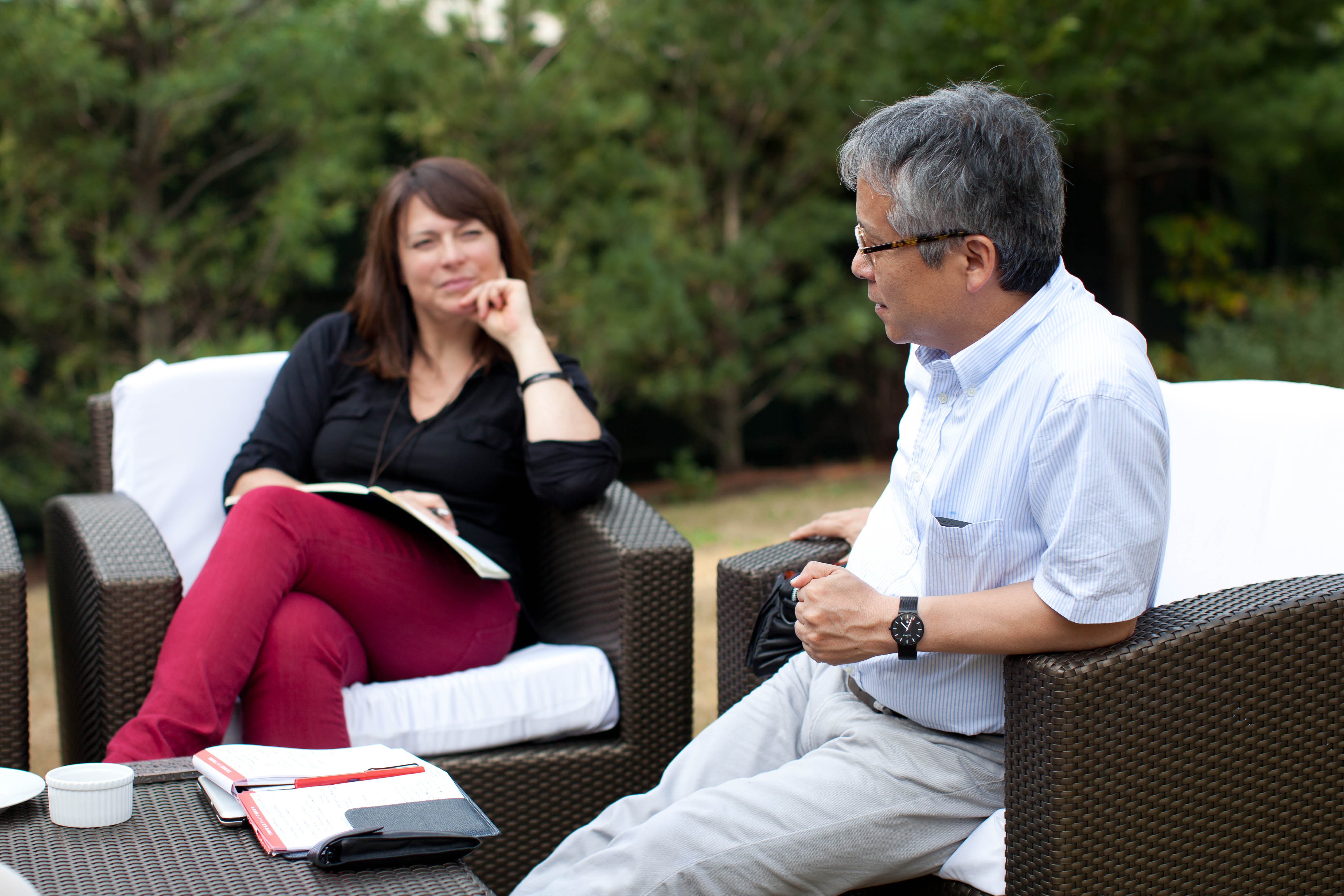 Pattie Maes and Hiroshi Ishii